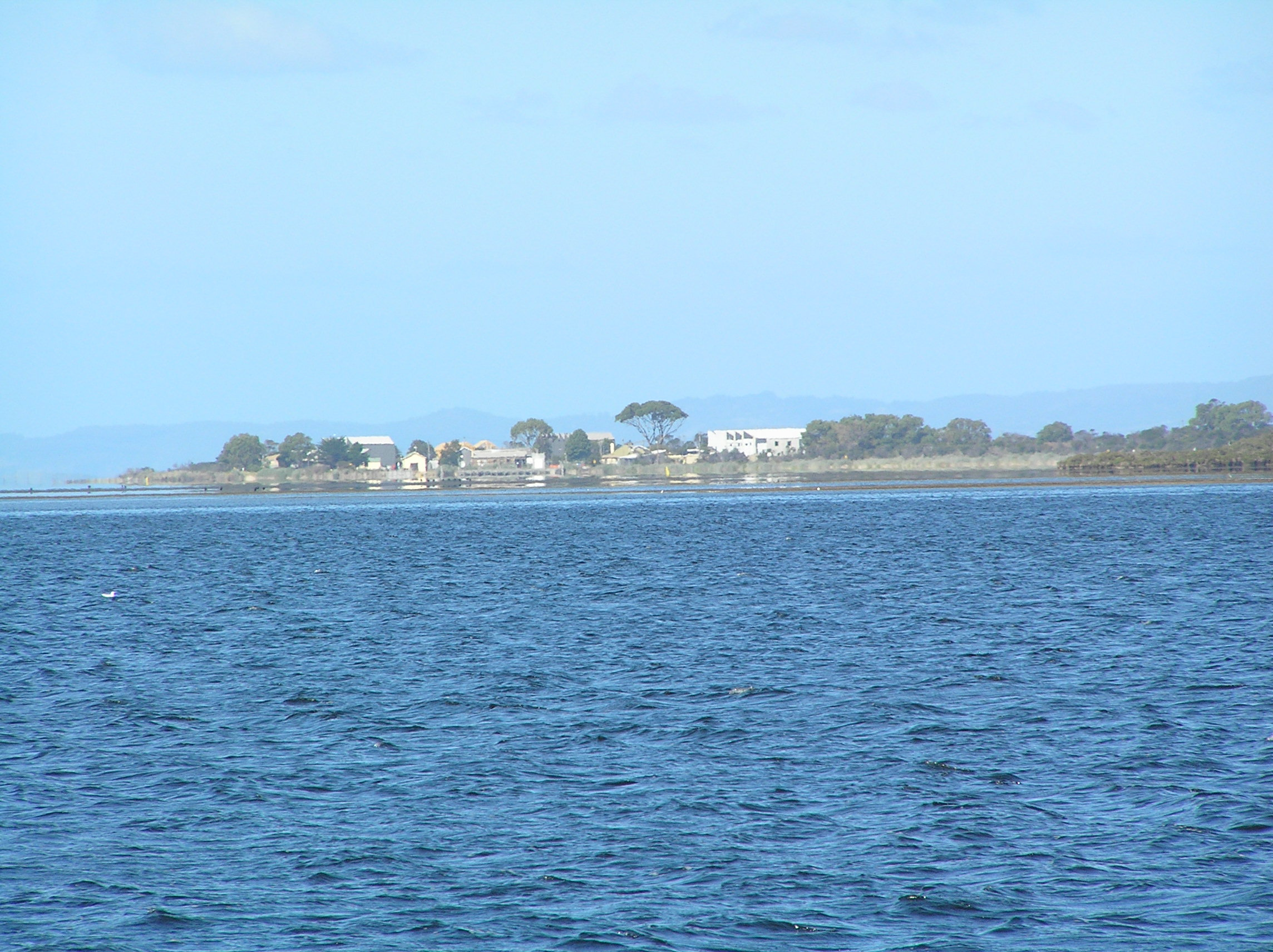 View of buildings at north-east end of Swan Island, Victoria, Australia, from Swan Bay Jetty.